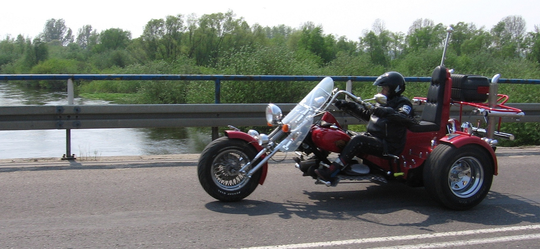 Trike on the road: bridge over Warta River in Poland